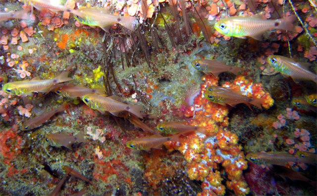 Flower cardinalfish (Apogon fleurieu), Pulau Aur, West Malaysia